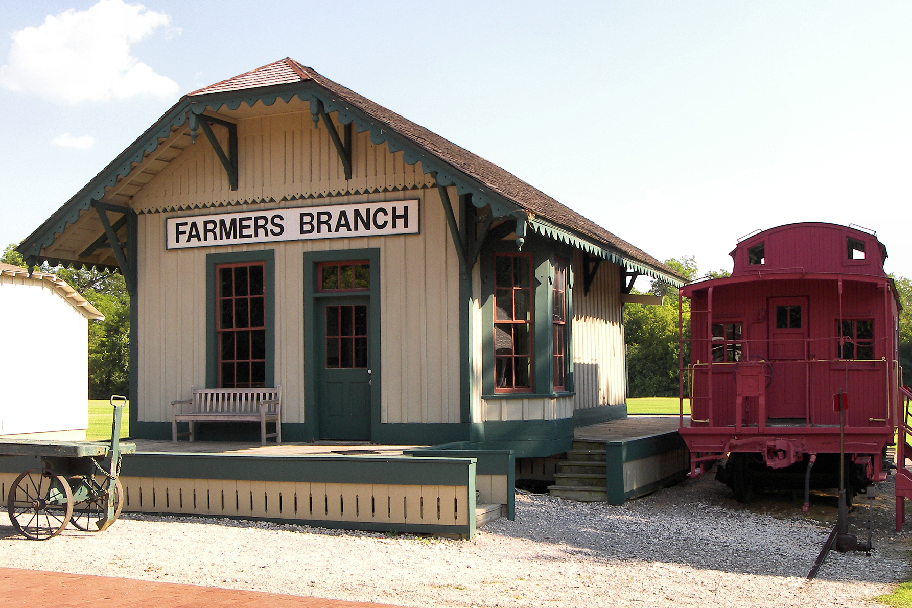 Original Farmer Branch Railroad Depot in Farmers Branch, Texas, United States. It was built c. 1877.